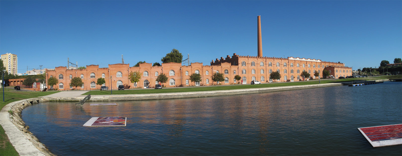 This file was uploaded for Wiki Loves Monuments in Portugal with the unique identifier 97026301.